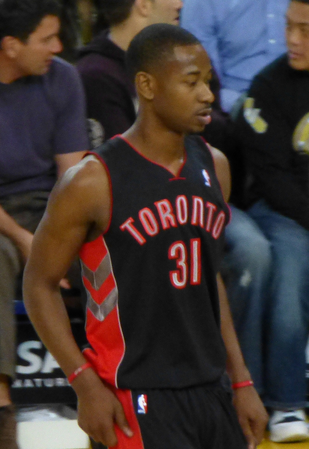 Terrence Ross, Toronto Raptors at Golden State Warriors March 4, 2013